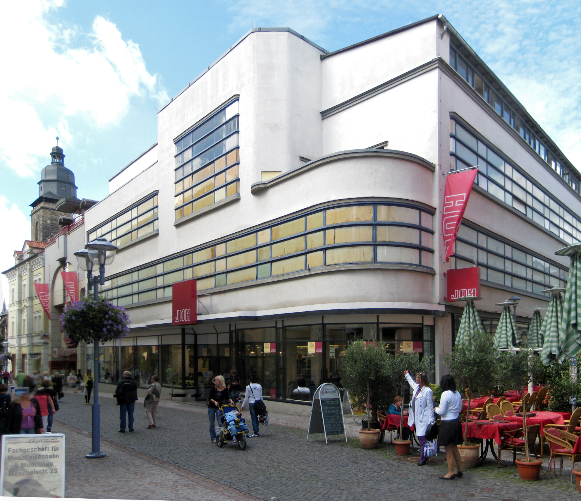 Former department store "Conitzer und Söhne" in Gotha (Thuringia). Today the building belongs to "Joh" department store company. The building was designed 1928 by Architect Bruno Tamme, completed 1929.